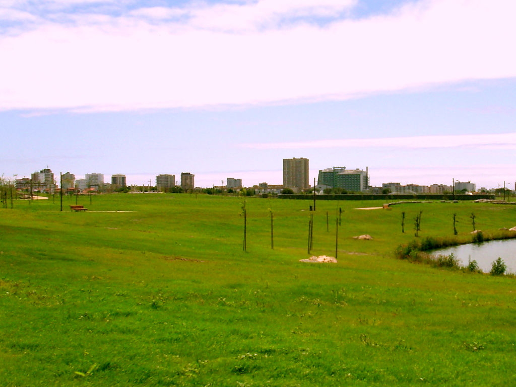 City Park of Póvoa de Varzim looking towards the highrise district known as Nova Póvoa.